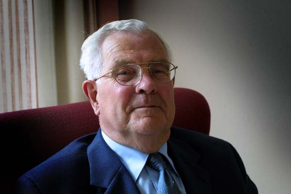 Prof. A. F. J. Klijn